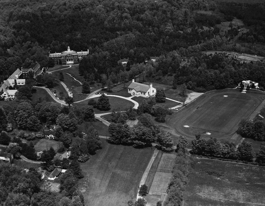 Berkshire School in 1953, 245 N Undermountain Rd, Sheffield, MA 01257, USA – 1953